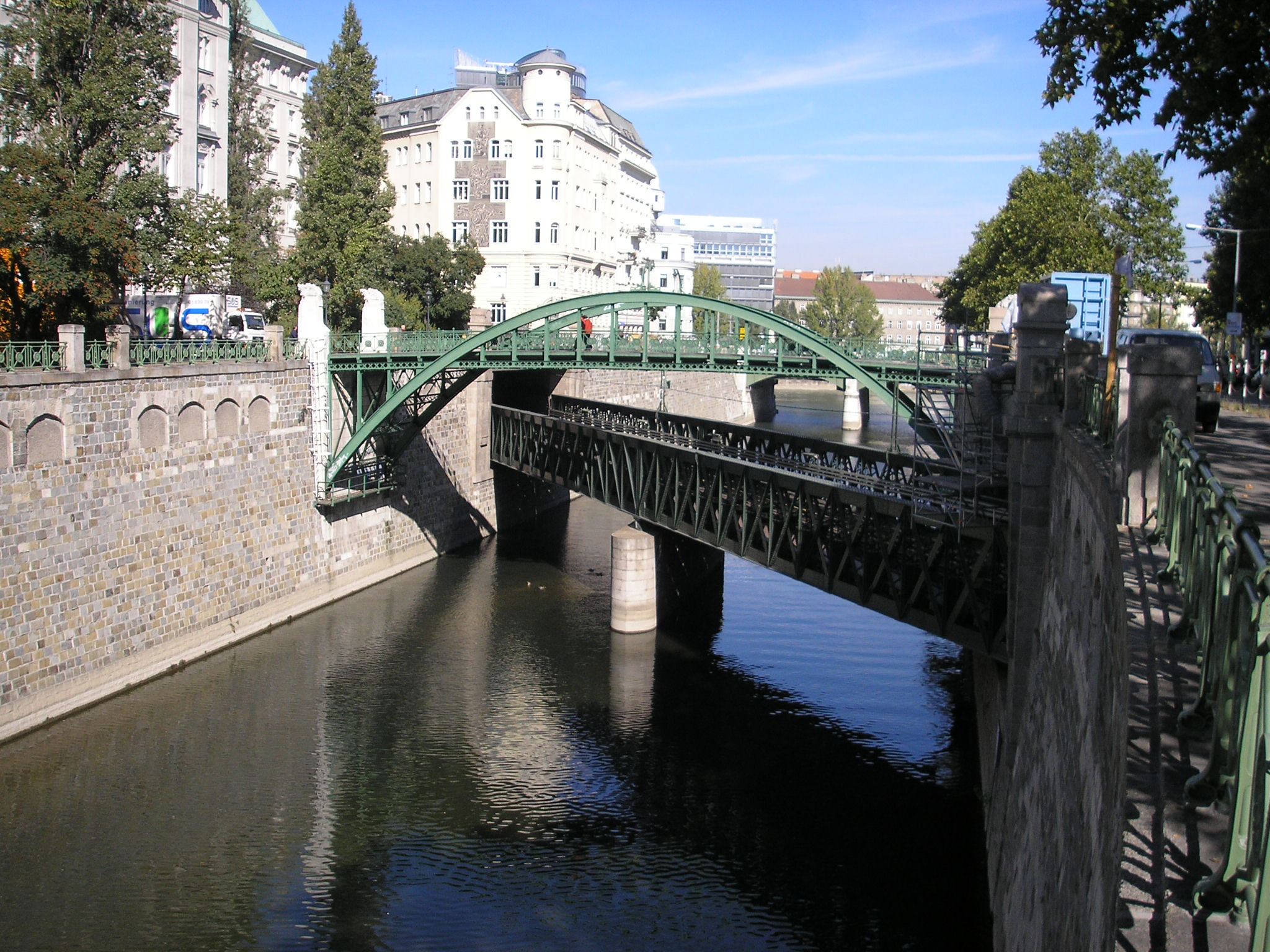 Zollamtsbruecke (Bridge) of the Vienna U-Bahn across the mouth of Wien River